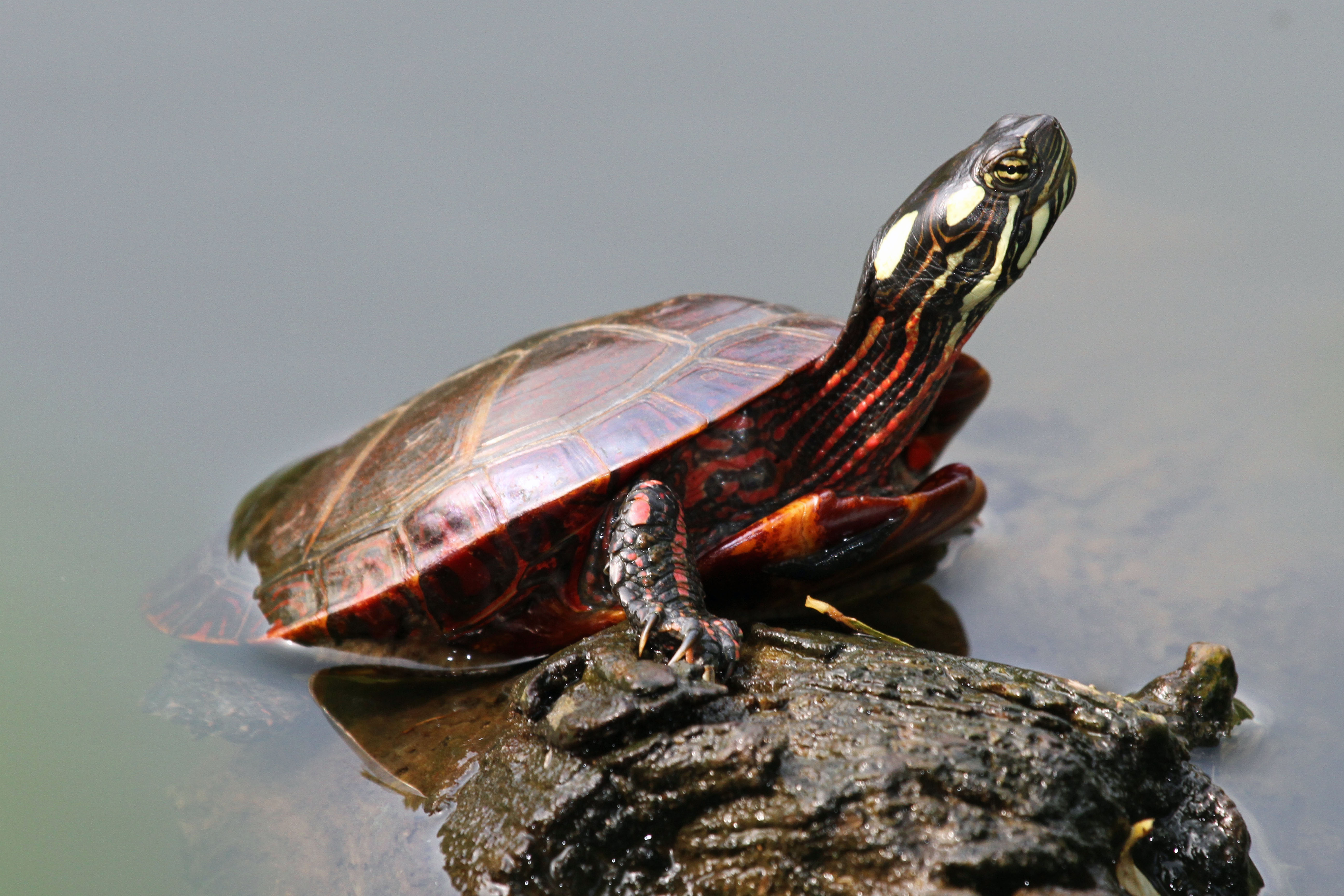 Eastern Painted Turtle (Chrysemys picta picta)